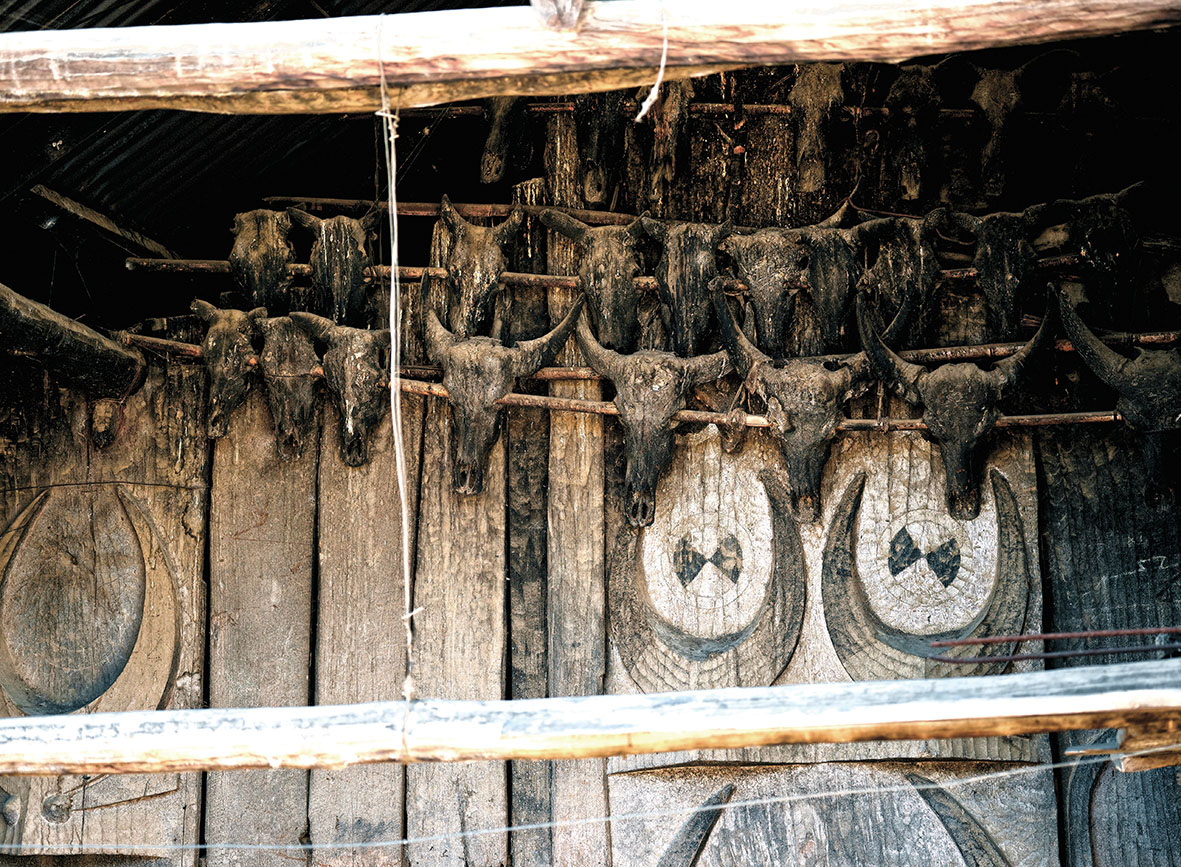 Frontage hall of a old Naga Angami house with wodd carvings and skulls.